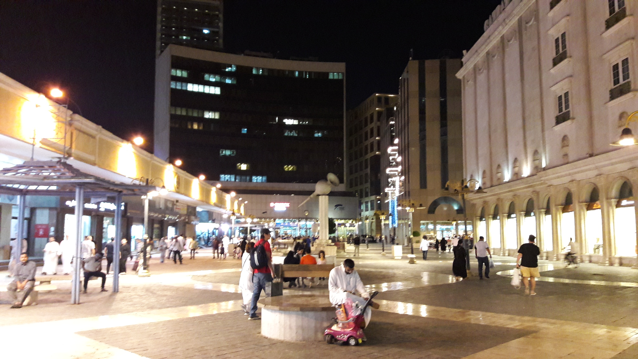 Balad , Jeddah